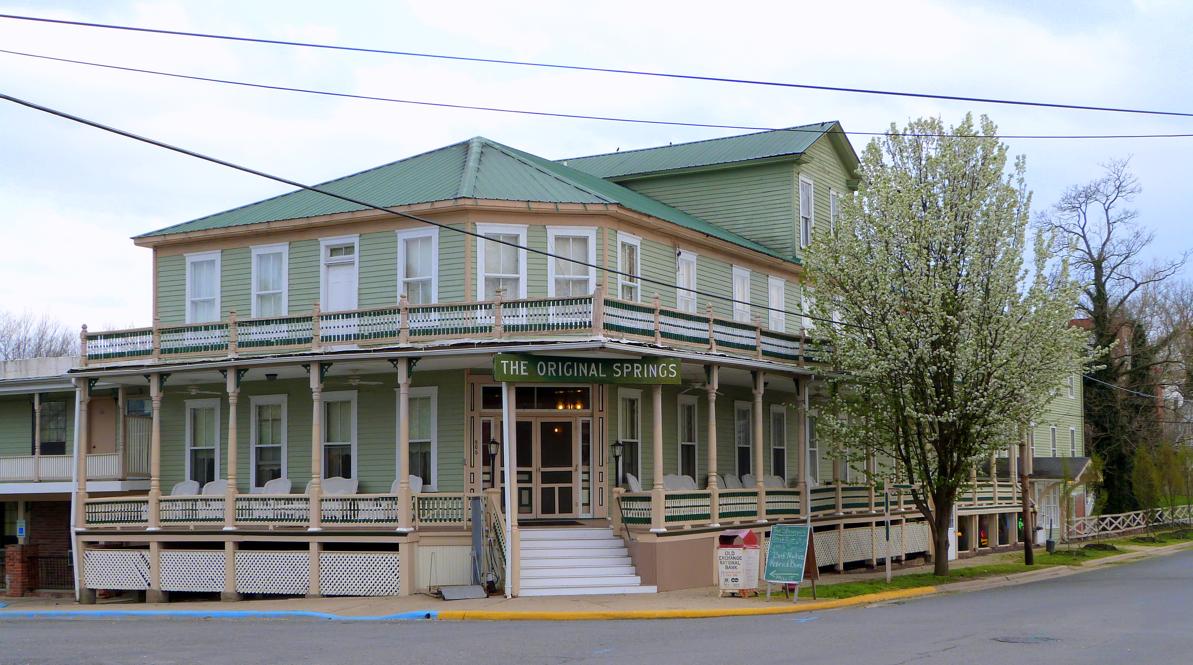 The historic Original Springs Hotel and Bathhouse (built 1892), located at 301 East Walnut Street in Okawville, Illinois, United States, is listed on the US National Register of Historic Places.